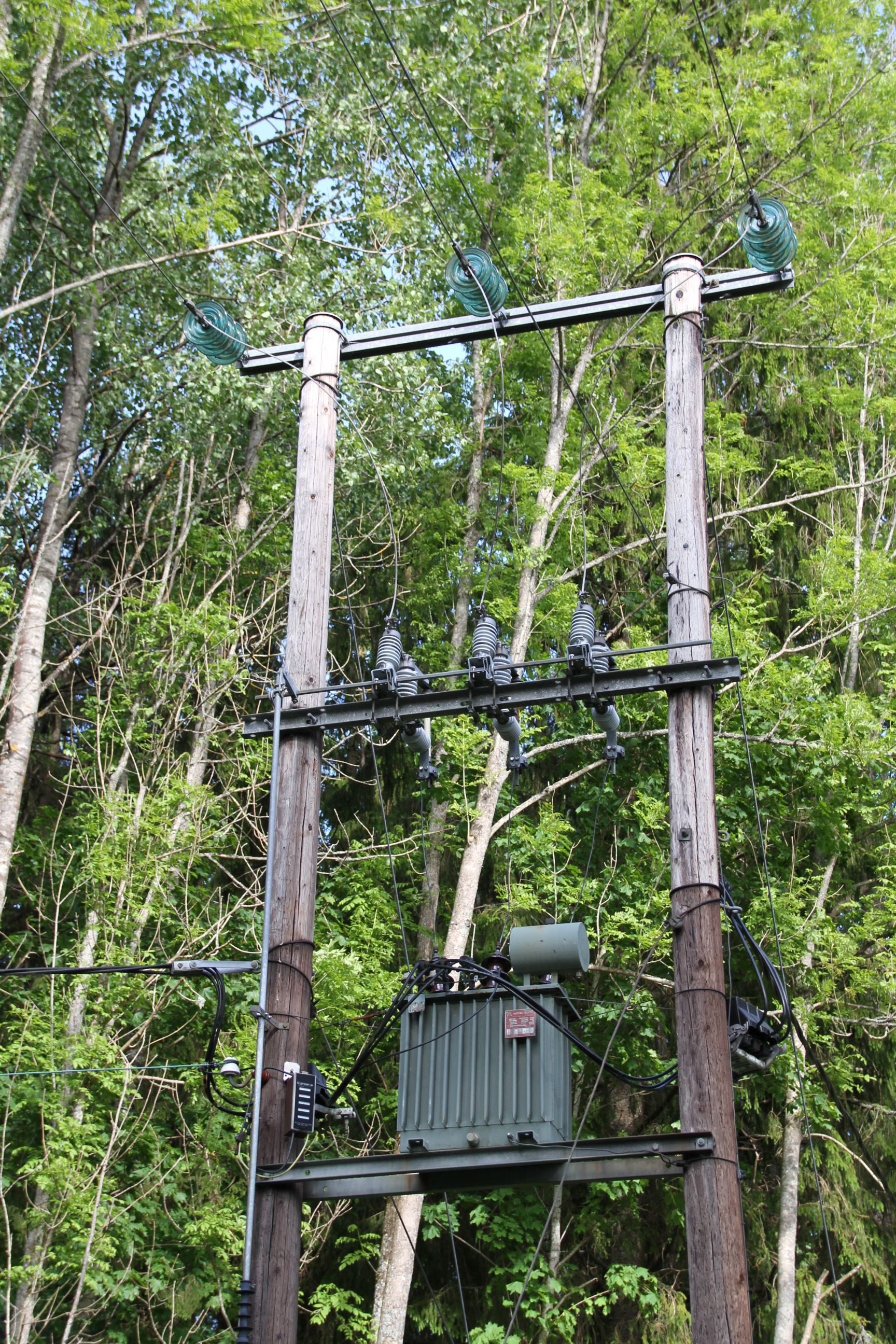 Three-phase, insulated terra (IT) distribution transformer, from Hurum, eastern Norway. Most utility networks in Norway are still IT, with neutral point earthed by a neutral-point diverter (nøytralpunktavleder). Only three power lines (L1-3) are distributed to the consumer, no PE or N-lines. Instead, a voltage spike protection (overspenningsvern) is applied directly at the transformer.